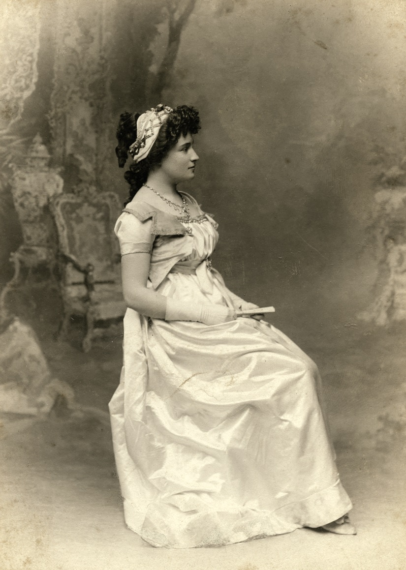 Helena Sierakowska, born as Lubomirska (1886-1939) - Polish social activist.